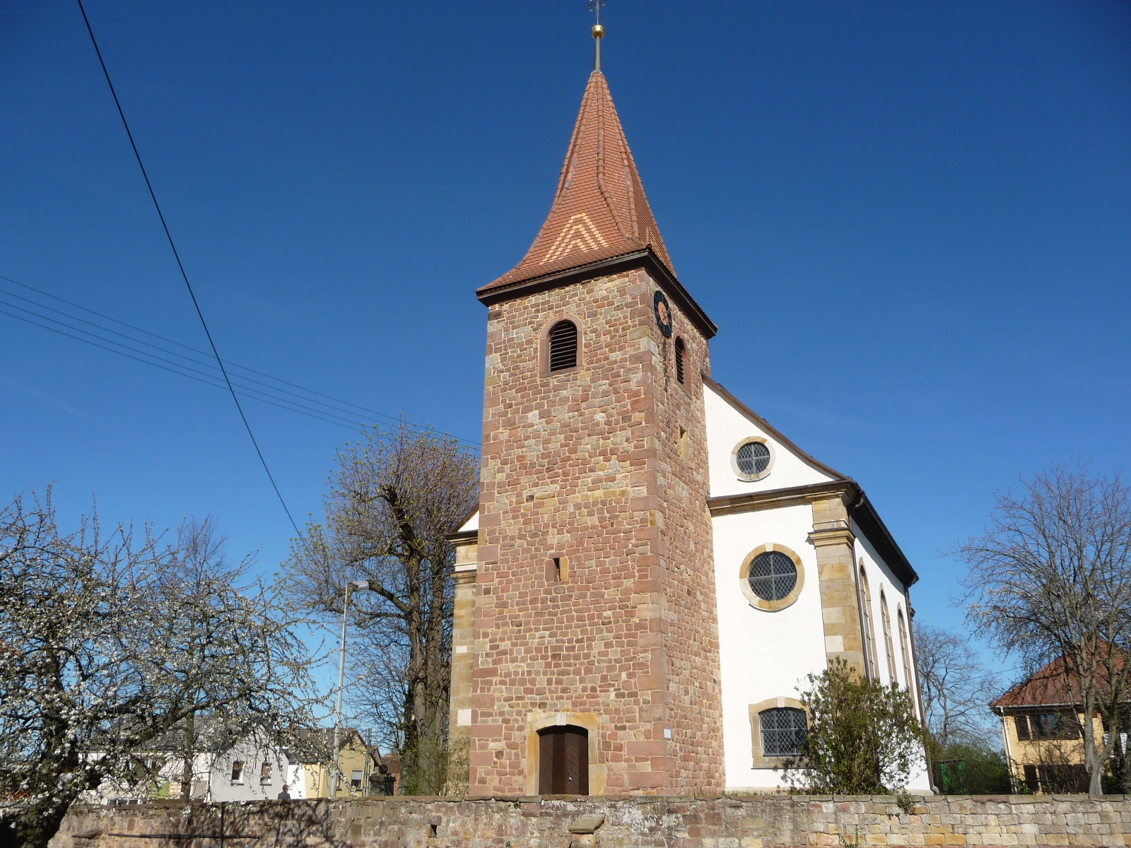 protestant church of Freimersheim in Rhineland-Palatinate, Germany